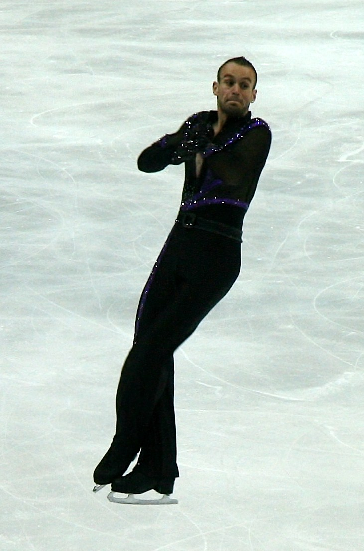 Kevin van der Perren at the 2011 World Figure Skating Championships